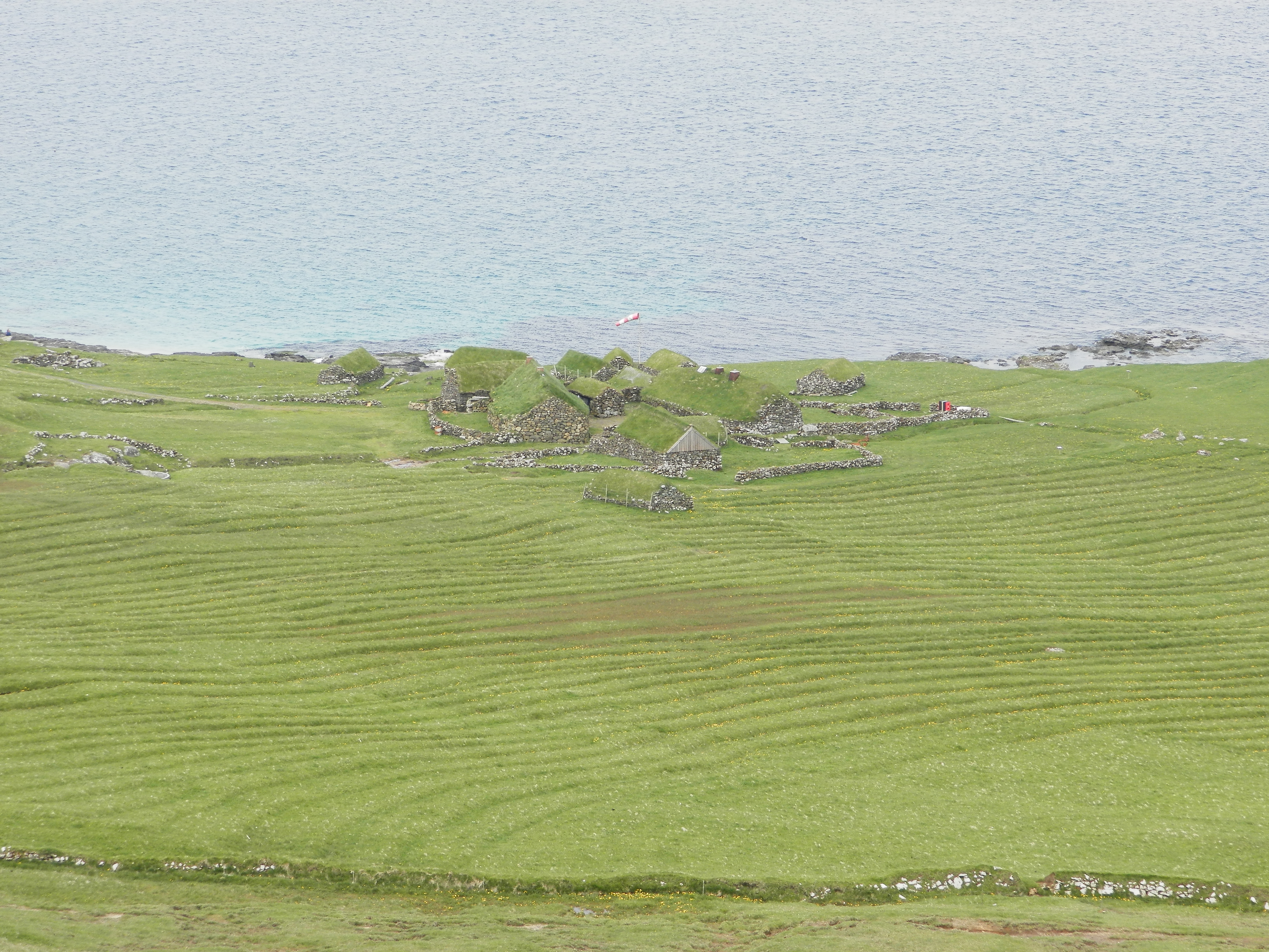 Koltur is one of the smallest islands of the Faroe Islands. The population is 1 as of 2014. Koltur has ancient stone houses with turf roofs. The neighbourhood Heima í Garði has been renovated in recent years. This photo was taken on 7 June 2014 when the public ferry and bus company of the Faroe Islands Strandfaraskip Landsins made an excursion to the island for its staff with families. Bjørn Patursson was guide.